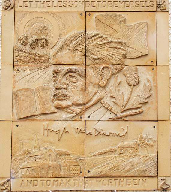 Hugh MacDiarmid Plaque on building near Gladstone Court Museum. The latter was opened by Scottish poet Hugh MacDiarmid in 1968. The inscription reads "Let the lesson be - to be yersel's and to mak' that worth bein"